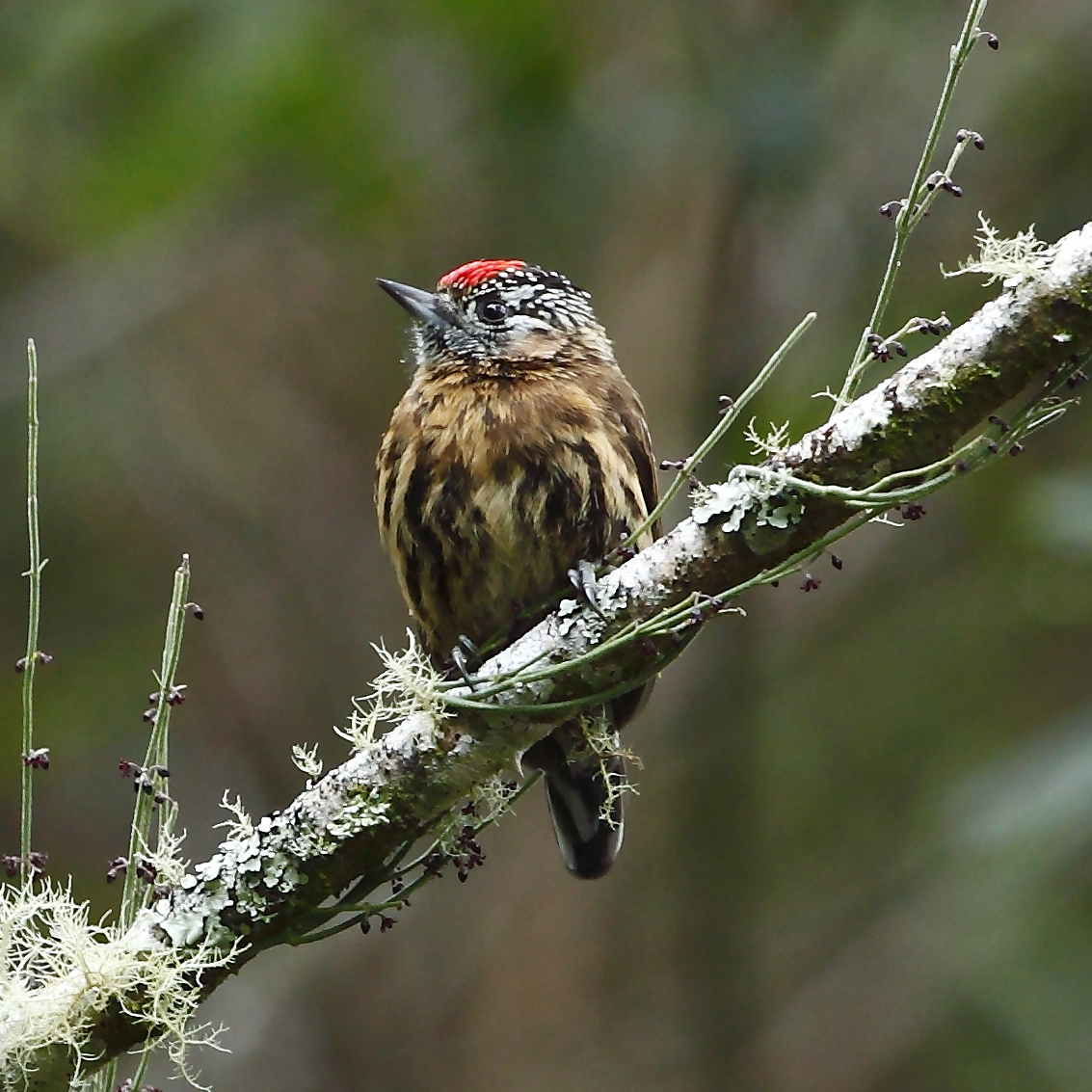 Mottled piculet at Urupema - SC - Brazil